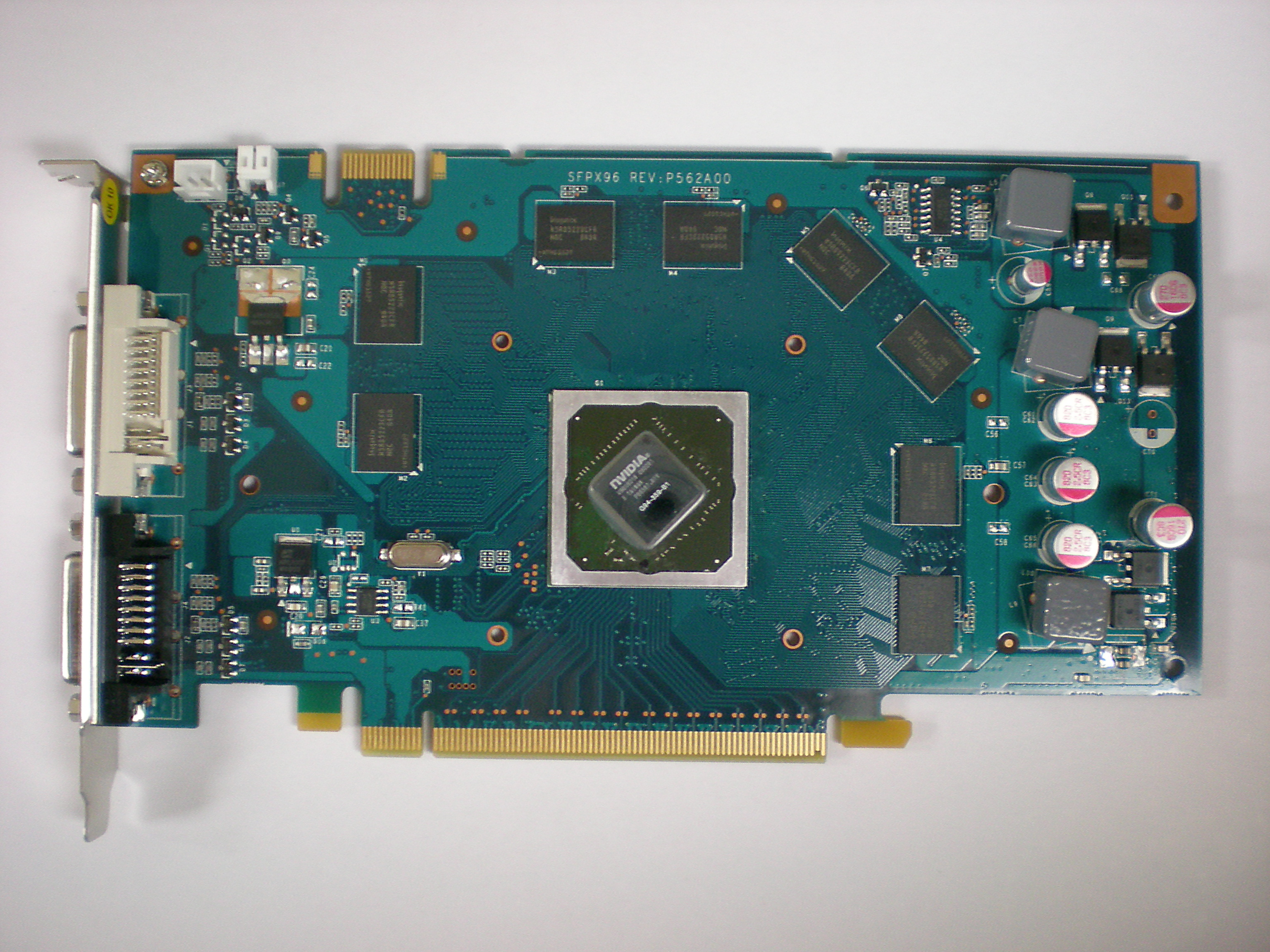 Geforce 9600 GT Green Edition